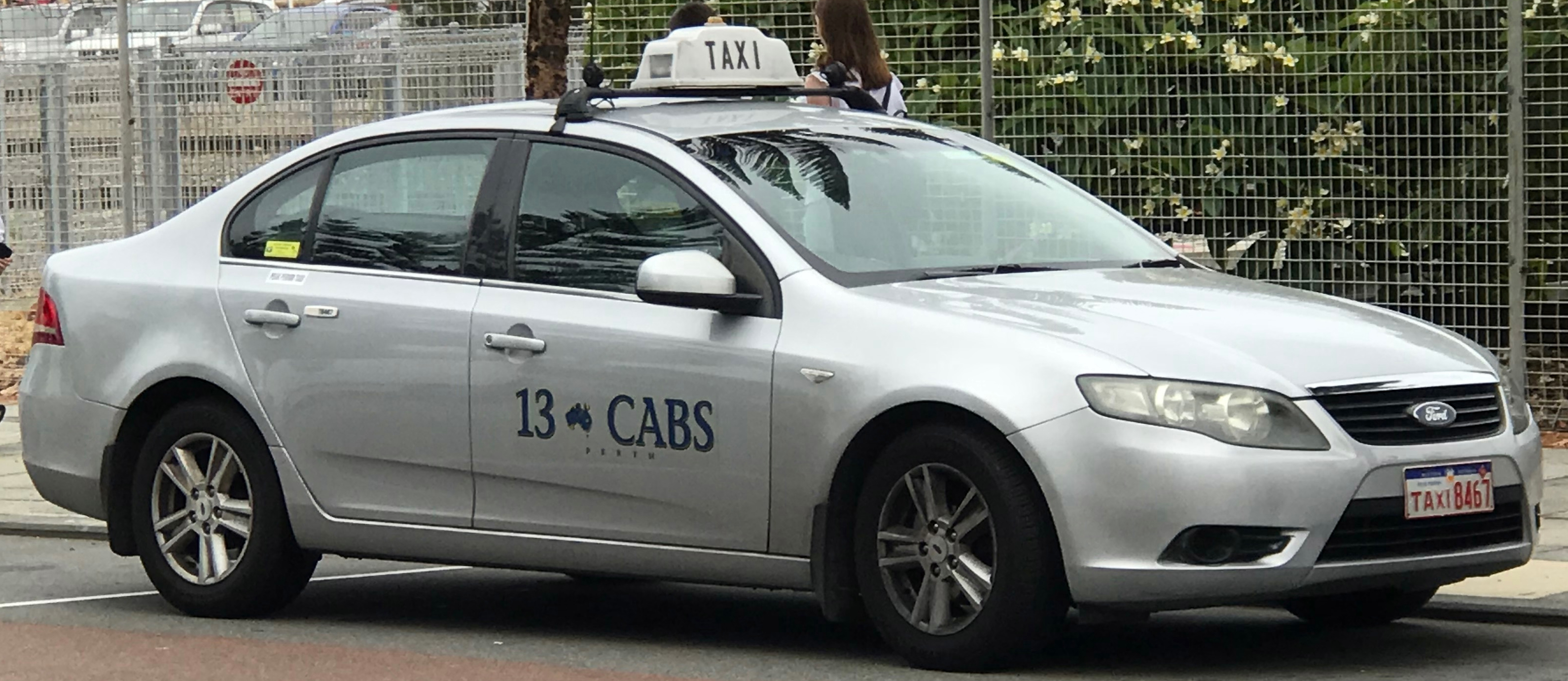 2009 Ford Falcon (FG) XT sedan, 13CABS. Photographed in Fremantle, Western Australia, Australia.